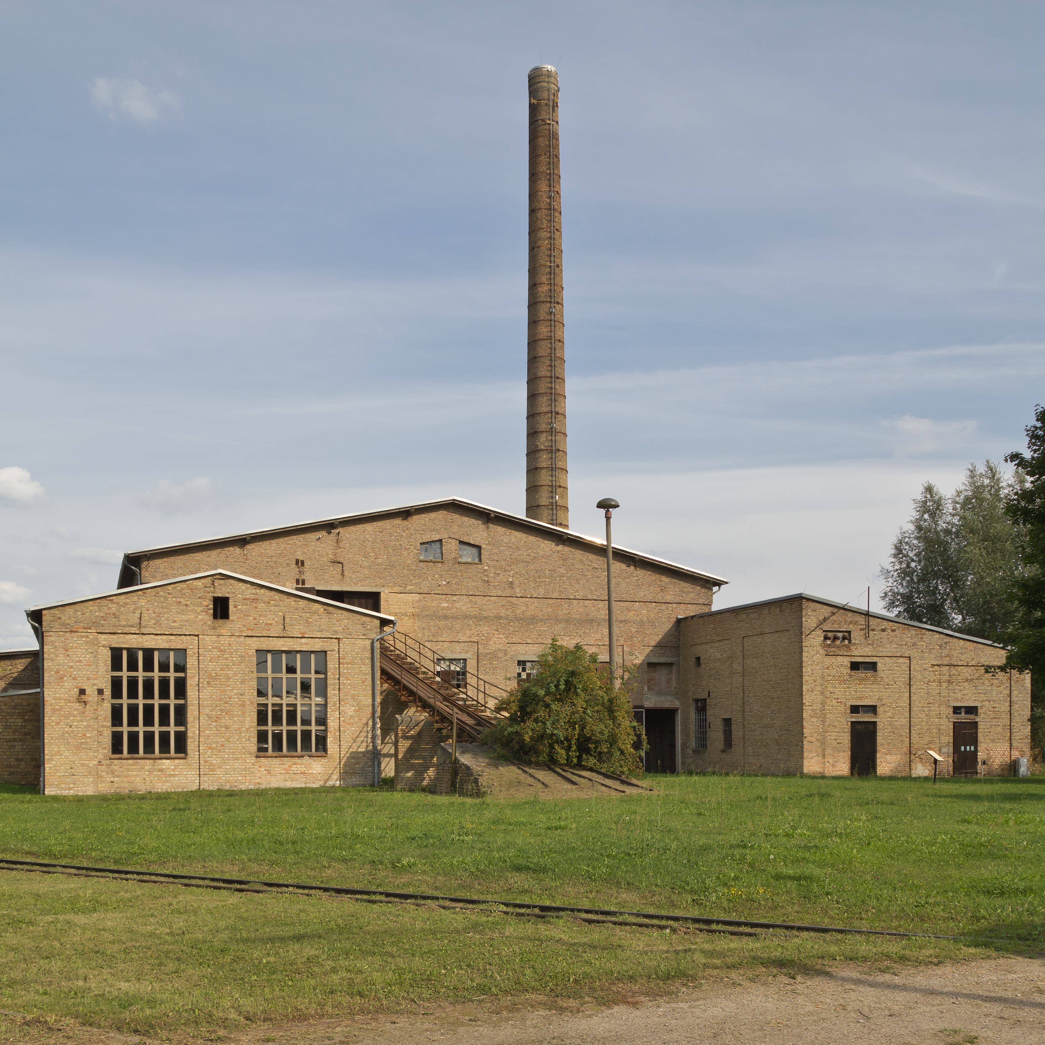 Brickyard Park in Mildenberg (Zehdenick), Brandenburg, Germany.